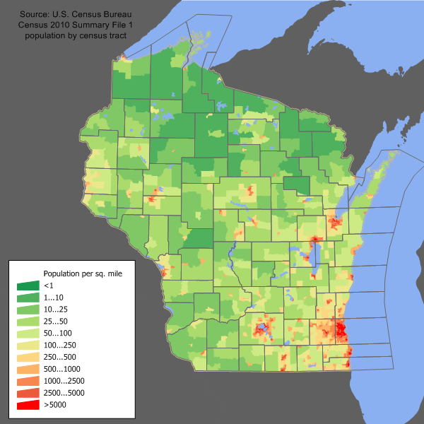 Population map of Wisconsin, updated with 2010 census data.